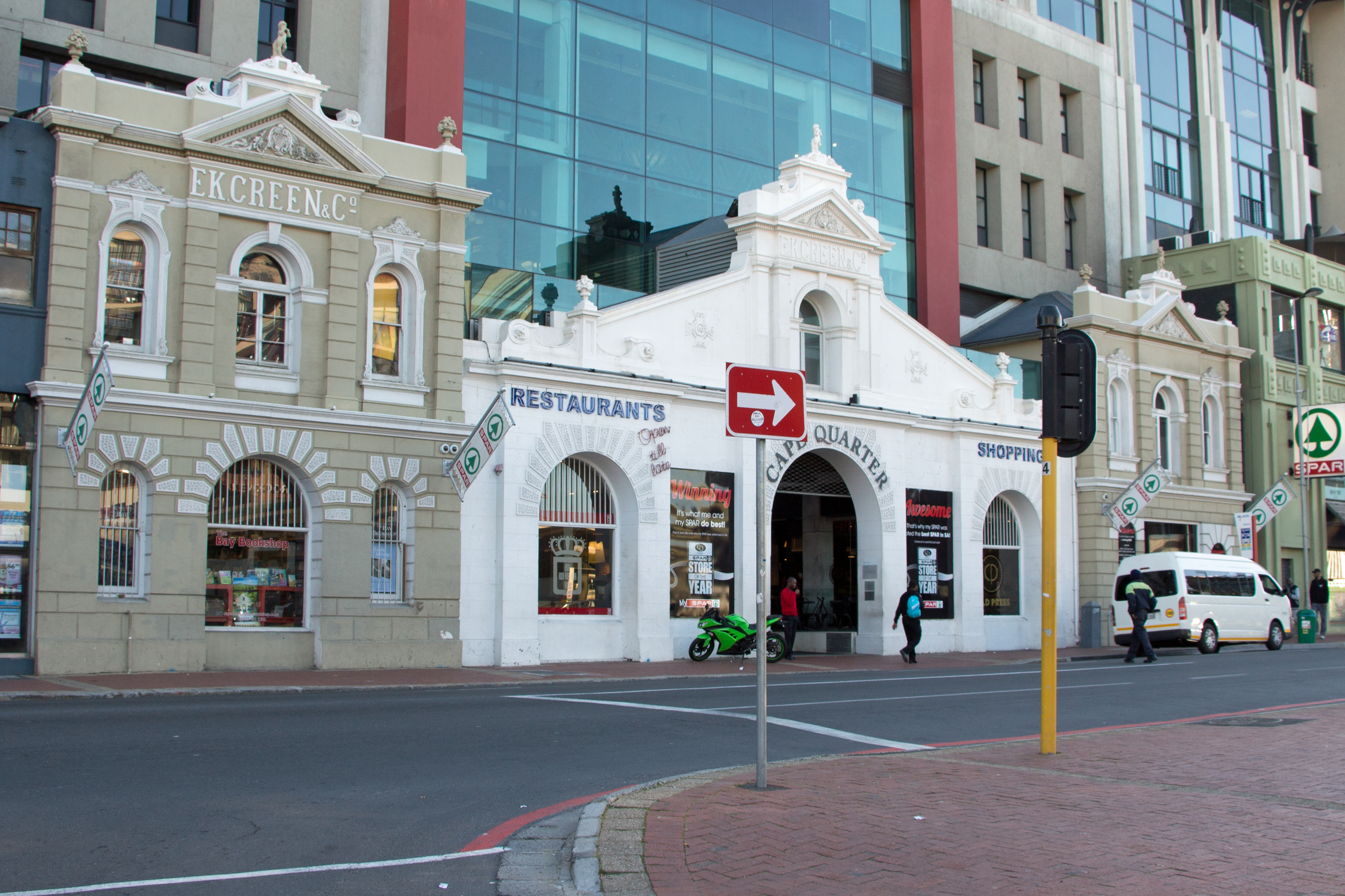 Cape Quarter Lifestyle Village, Somerset Road, De Waterkant, Cape Town, South Africa